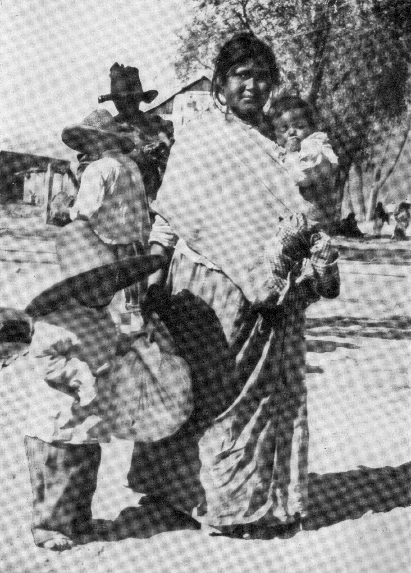 A PATIENT MEXICAN MOTHER. When war for the peace of the world and "for the principles that gave her birth," is welding the great heart of America into high-purposed unity, she must needs feel a deep pity for the mothers and children of distracted Mexico, and a just indignation that their burden of poverty and distress has been increased by selfish Prussian intrigue.